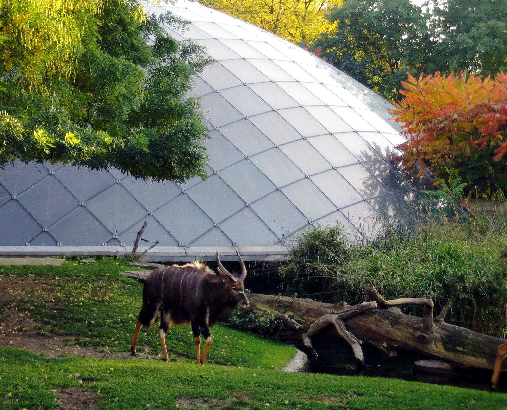 Zoo Berlin, building for hippopotamusses, exterior.